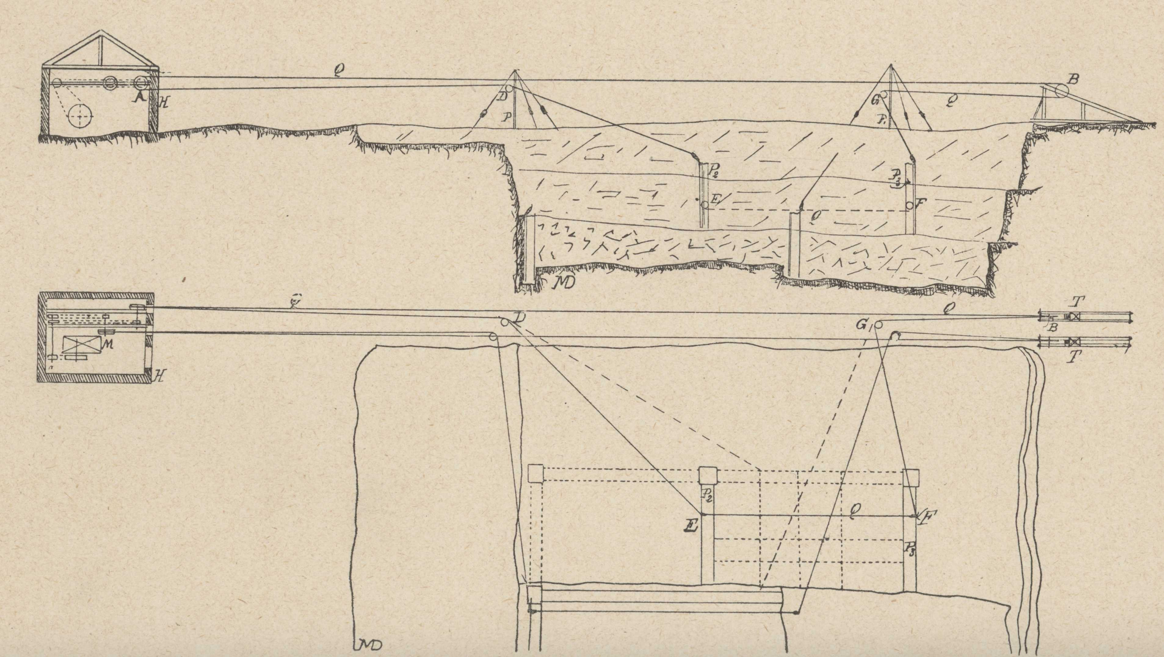 system of helicoidal wire saw (M. Darras: La Marbrerie. Paris (Dunod et Pinat) 1912)